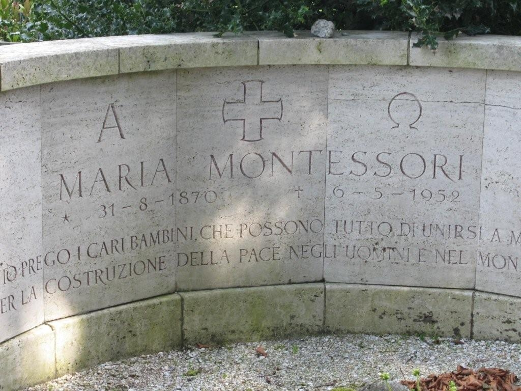 Grave of Maria Montessori (Rooms-katholieke begraafplaats Noordwijk in Noordwijk, The Netherlands